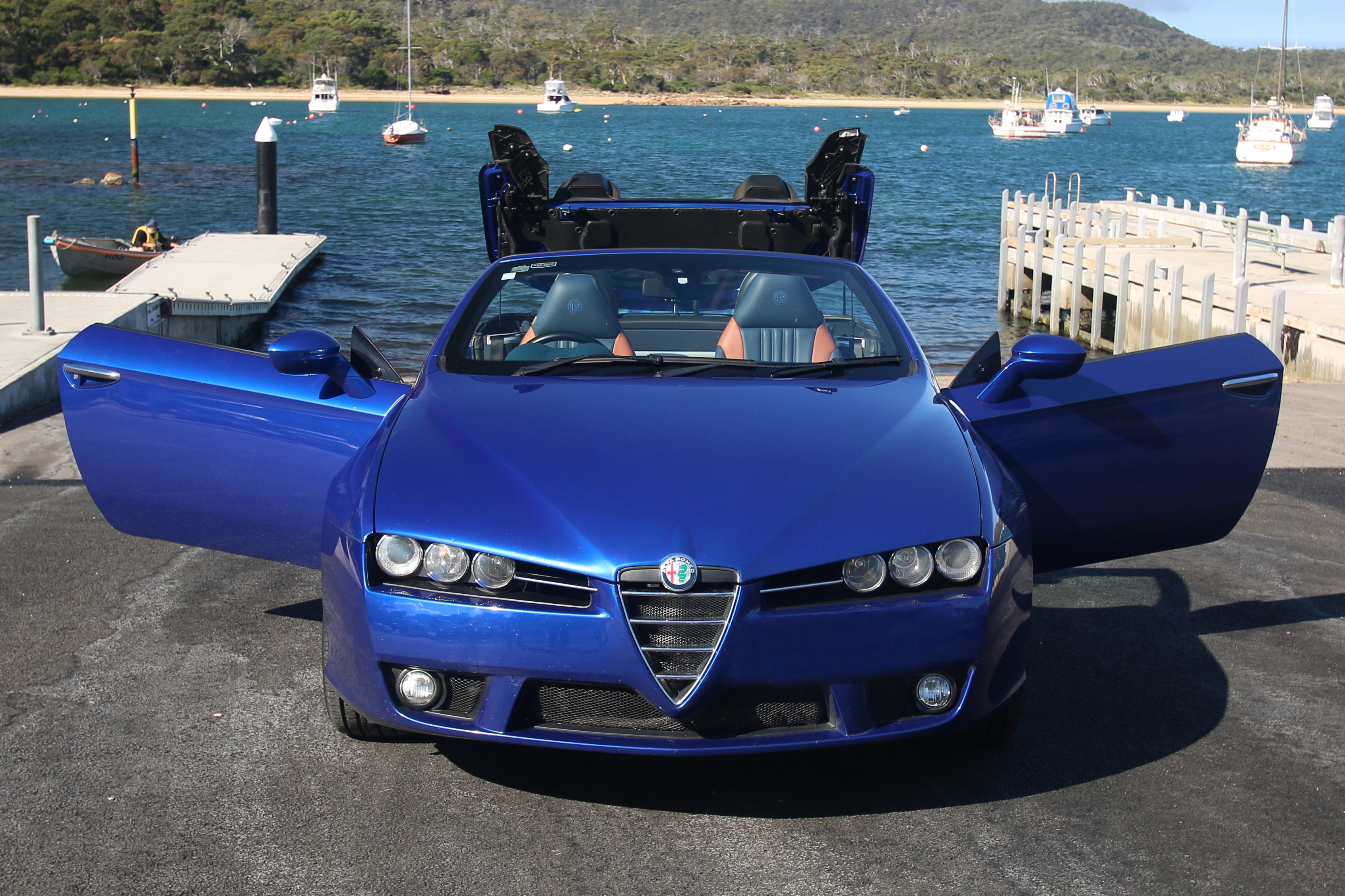 The sixth generation Alfa Romeo Spider. 2006 - 2011.